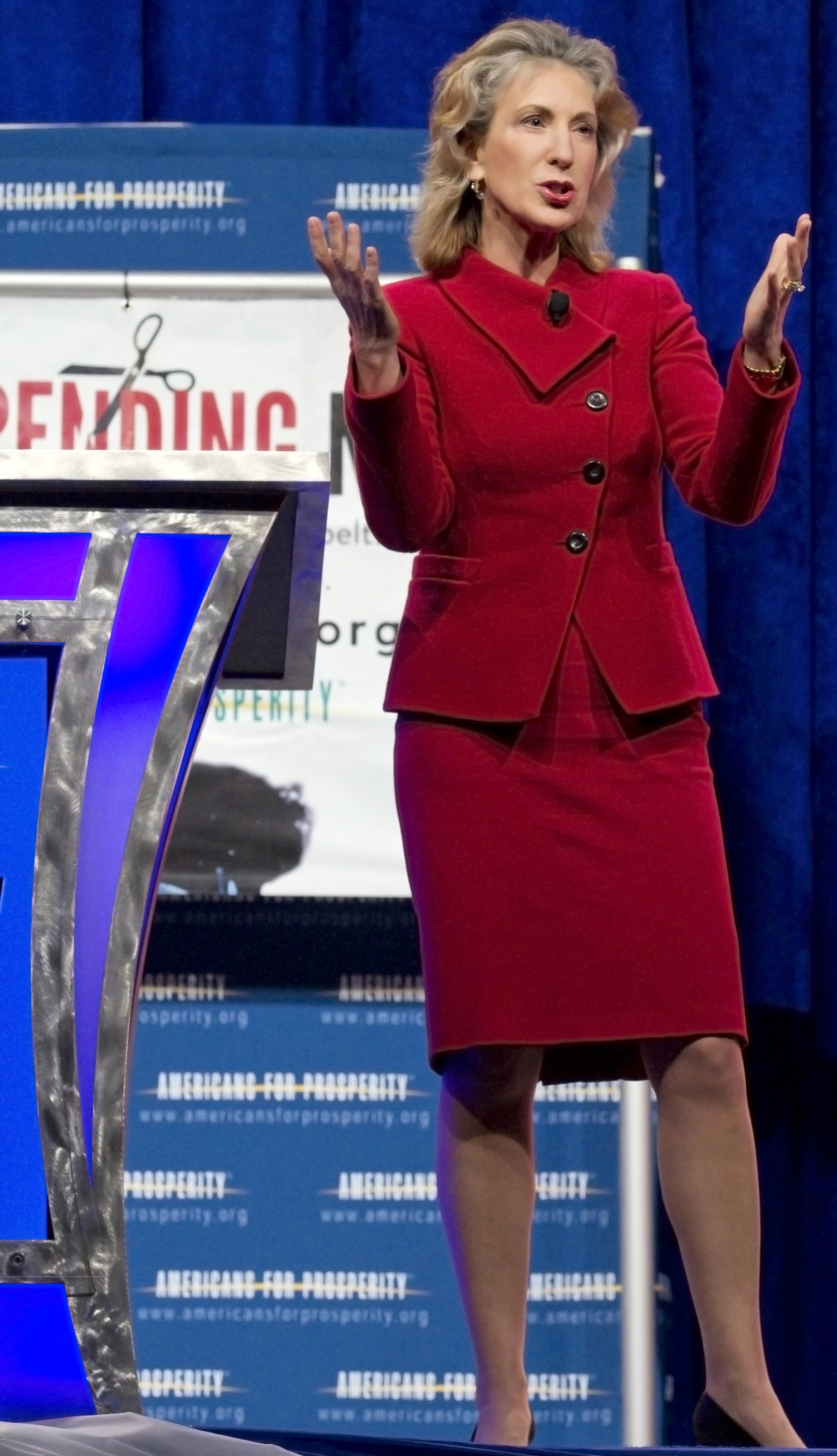 Former HP CEO Carly Fiorina at the 2011 Americans for Prosperity (AfP) - Defending the American Dream Summit in Washington, D.C.